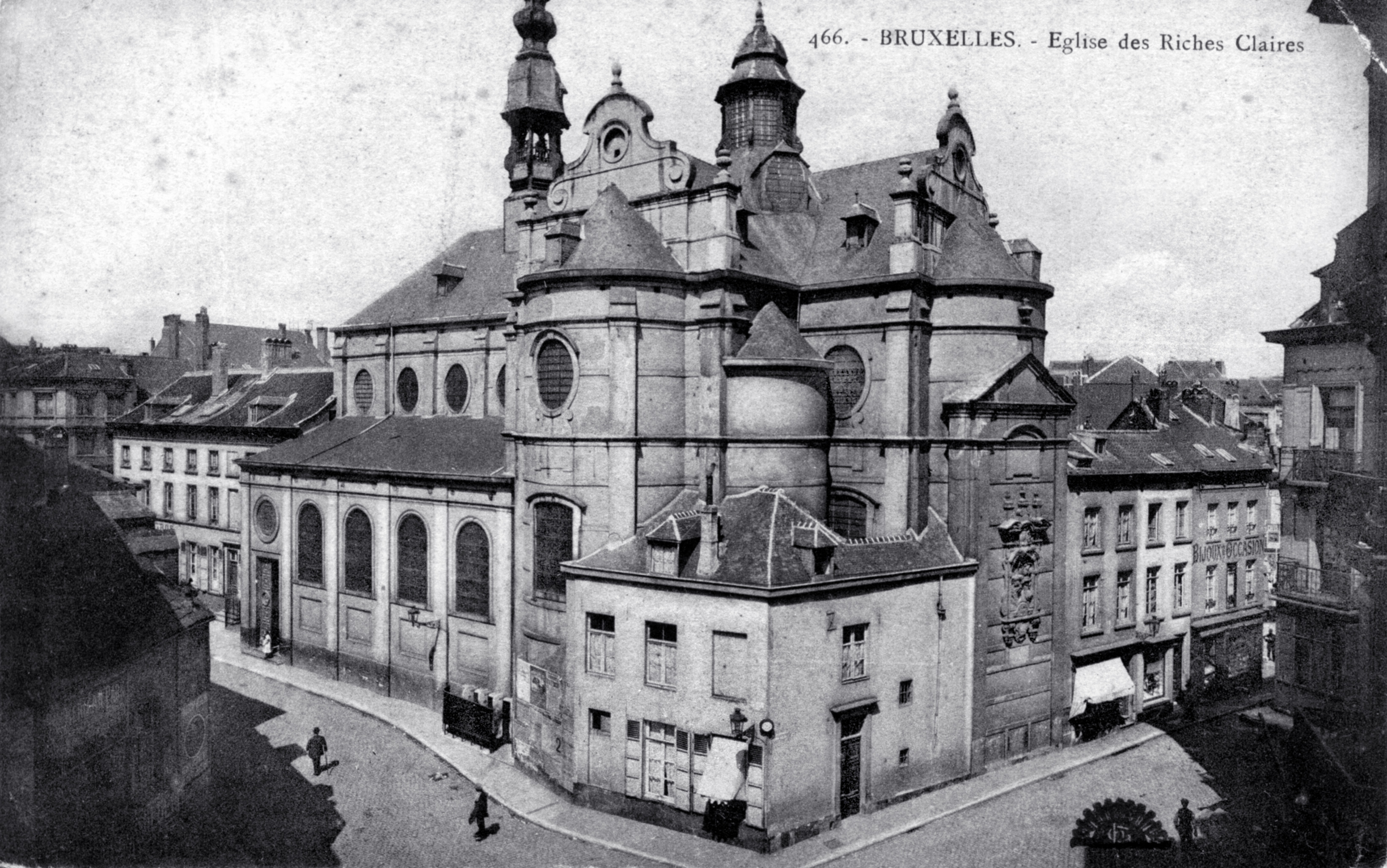 The Riches-Claires church postcard 1900